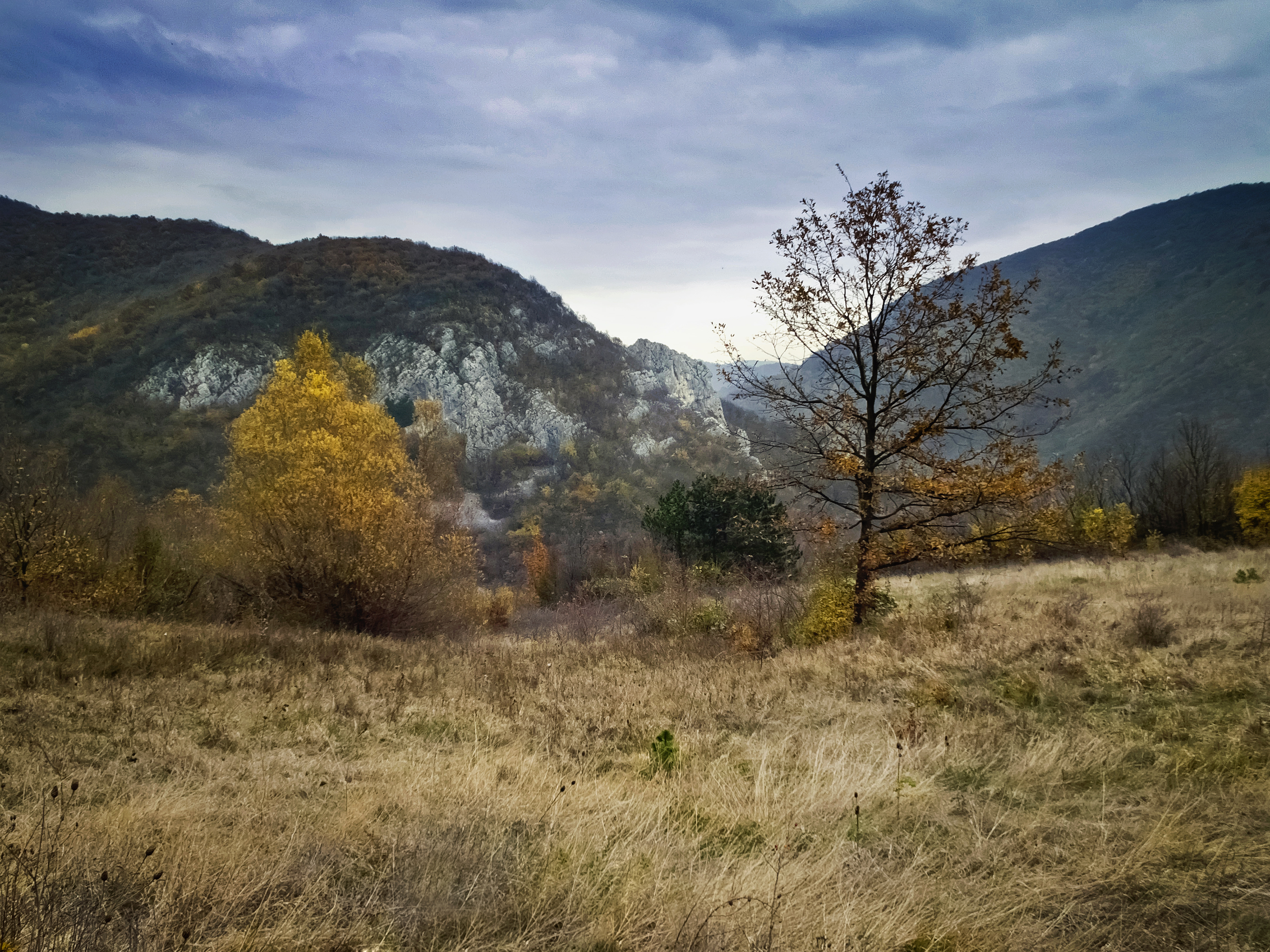 Kucaj mountains, Eastern Serbia